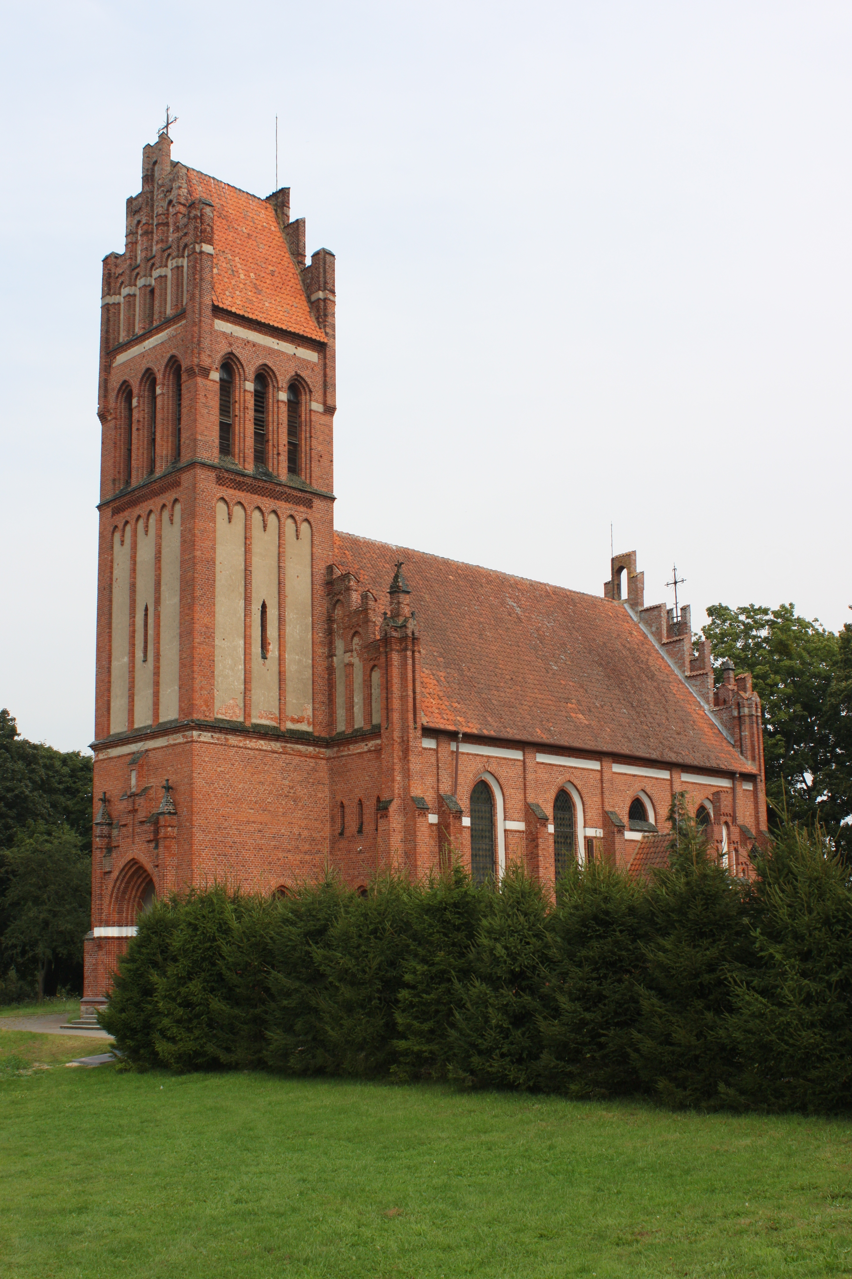 Saint Joseph church in Kobułty.